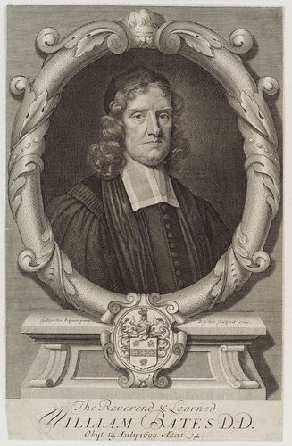 Portrait of William Bates (1625-1699), presbyterian minister.